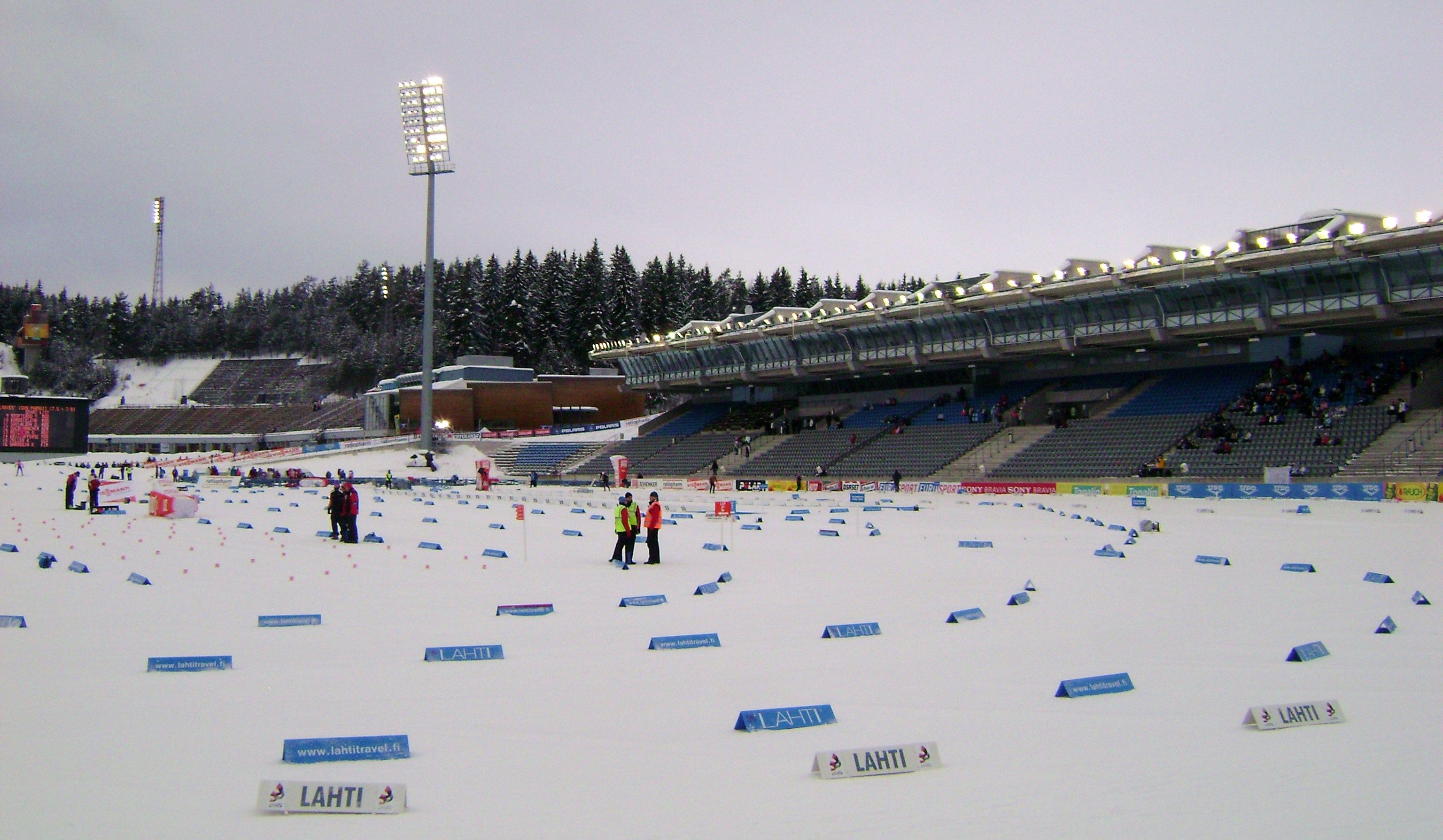 Lahti skiing stadium during Lahti Ski Games 2010.